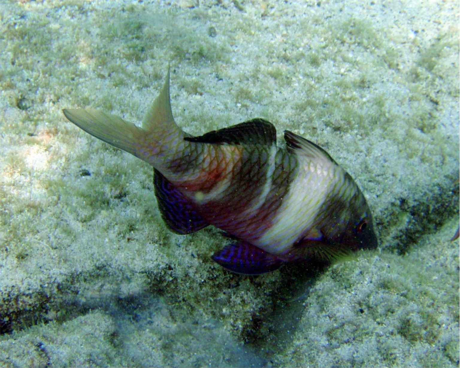 Goatfish,Parupeneus insularis at Kona, Hawaii. The image was taken by Brocken Inaglory